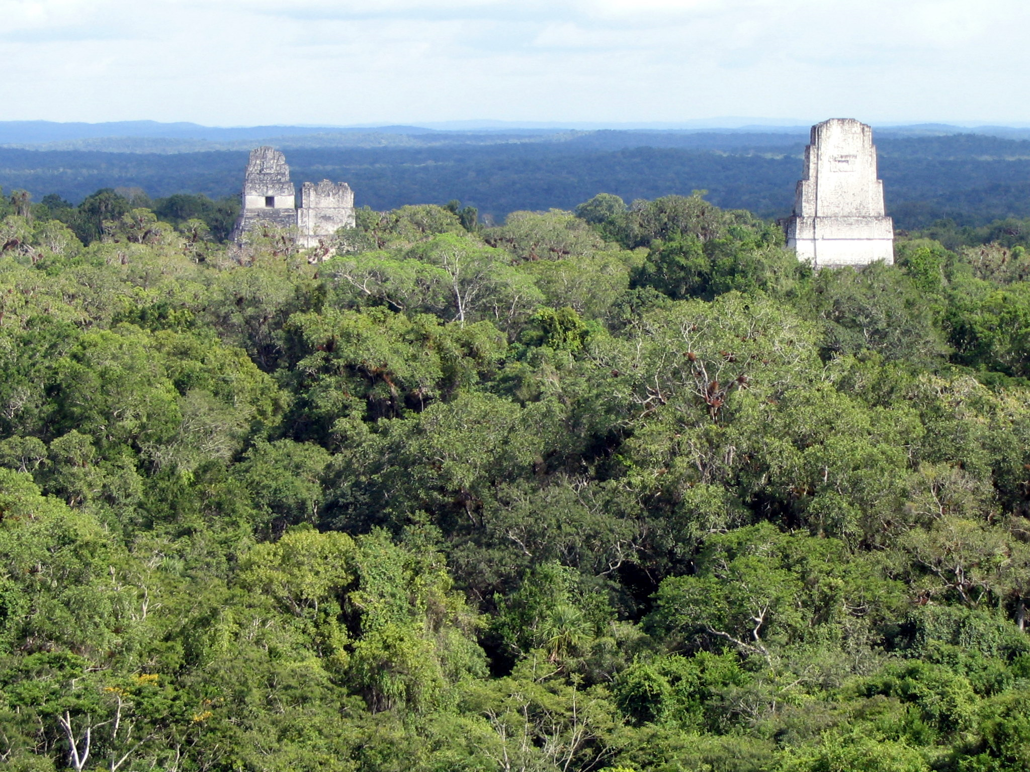 Taken whilst on holiday in Central America. This is a view of Temples I , II, III and IV, from left to right respectively. This view was used by George Lucas in Star Wars for the rebel base at the end of the film.